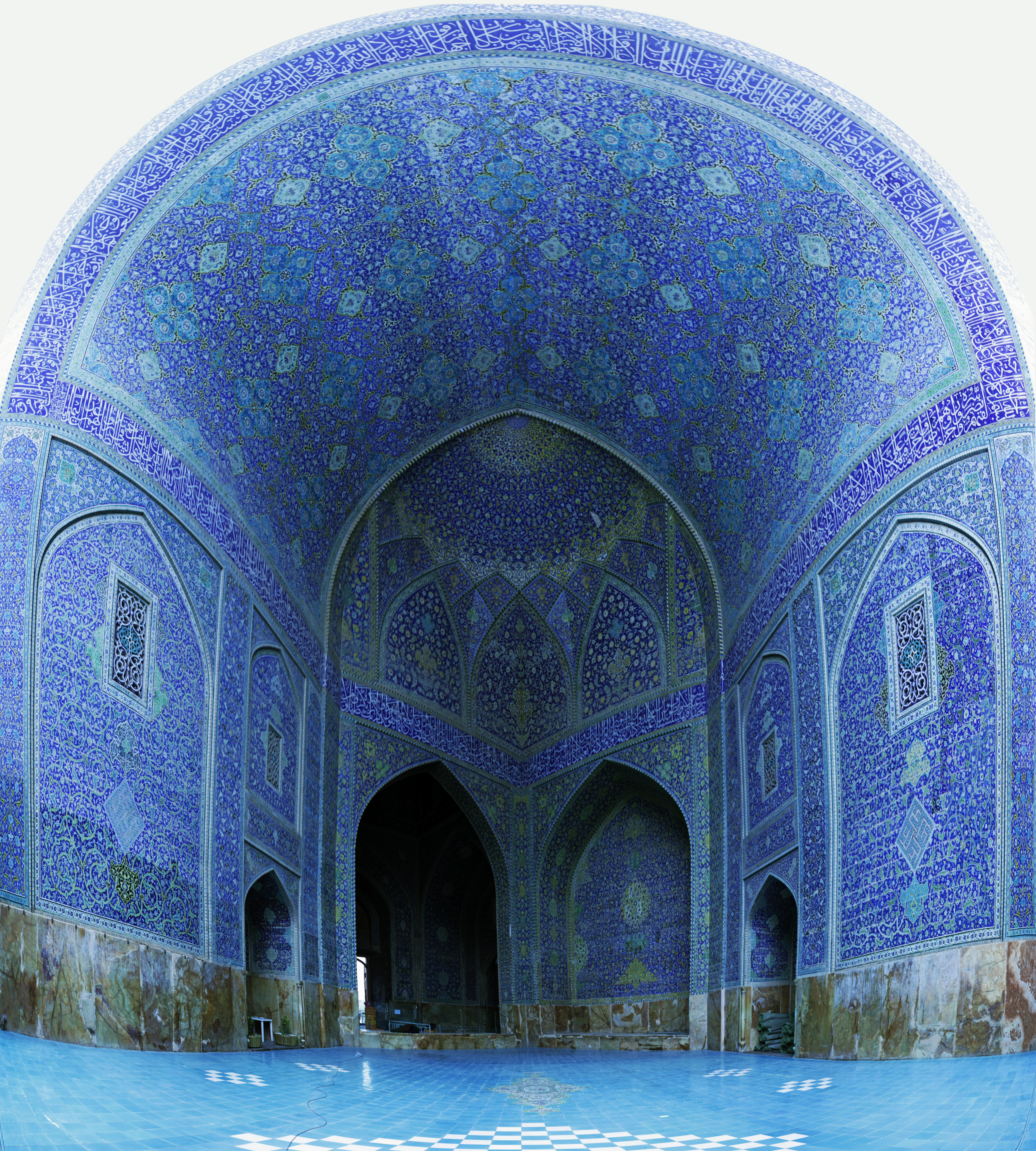 Masjed-e Shah, Isfahan